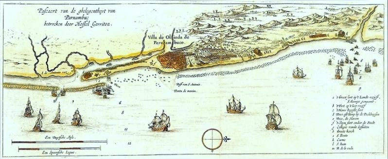 GERRITZ, Hessel. Map of Pernambuco from 1631. Ricardo Brennand Institute collection, Recife, Brazil. This is one of the first maps published in Holland showing the region today occupied by the city of Recife.